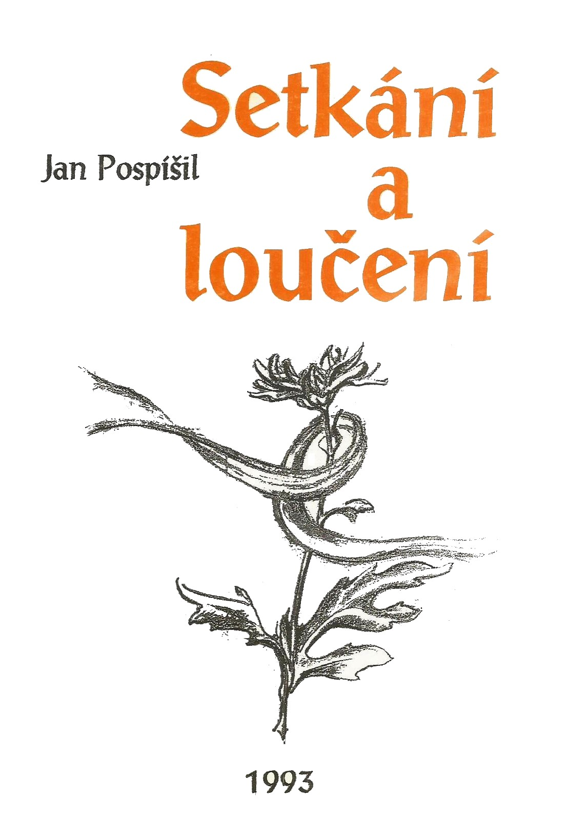 The title page of collection of poetry by Jan Pospíšil „Meeting and farewell“